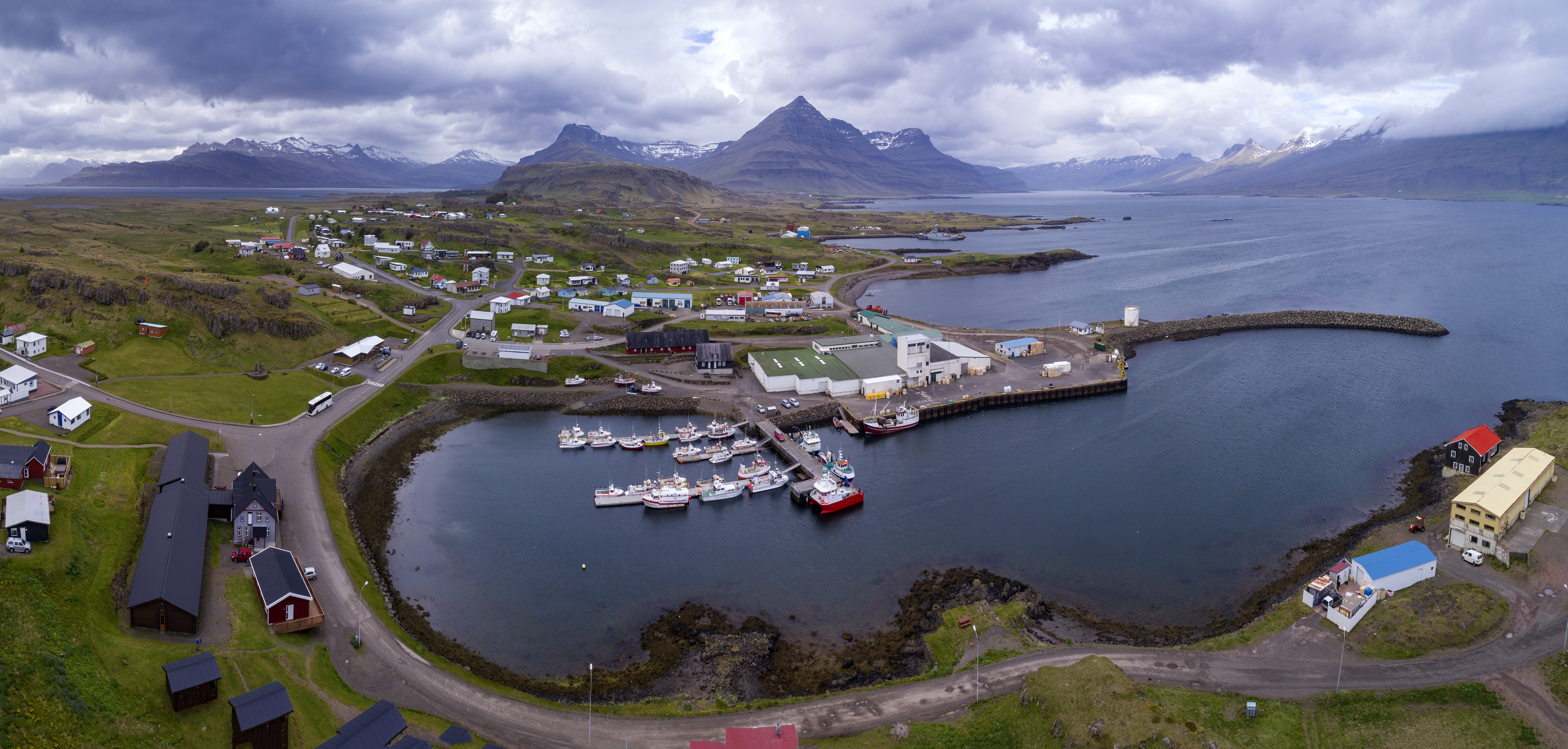 aerial panorama Djúpivogur Iceland 2017